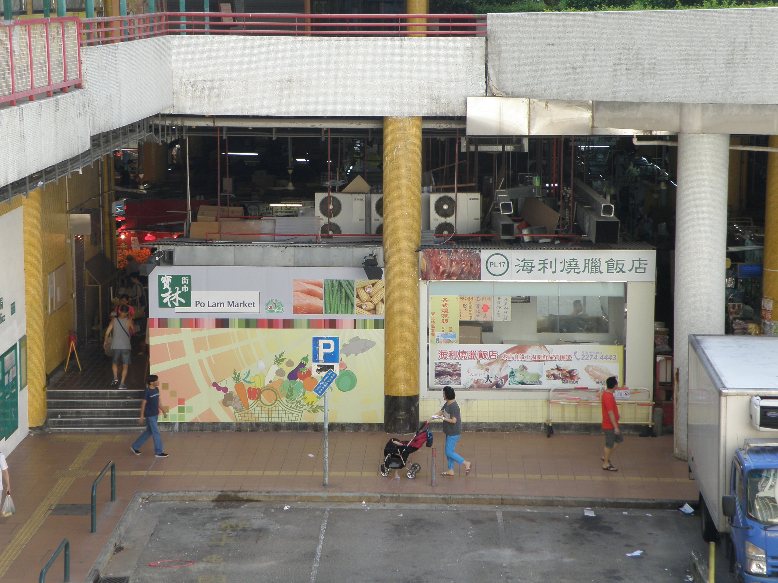 Po Lam Market in Tseung Kwan O, Hong Kong.